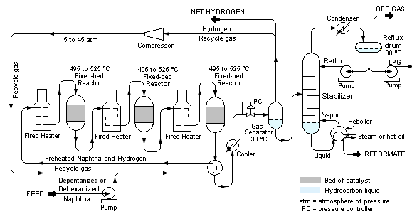 This is a process flow diagram of a catalytic reforming plant used in oil refineries to produce a high-octane gasoline component.